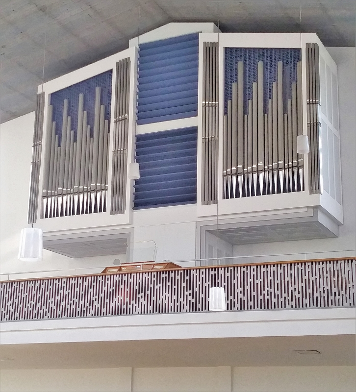 Rieger-Orgel in Maria Immaculata (Harlaching, Munich)